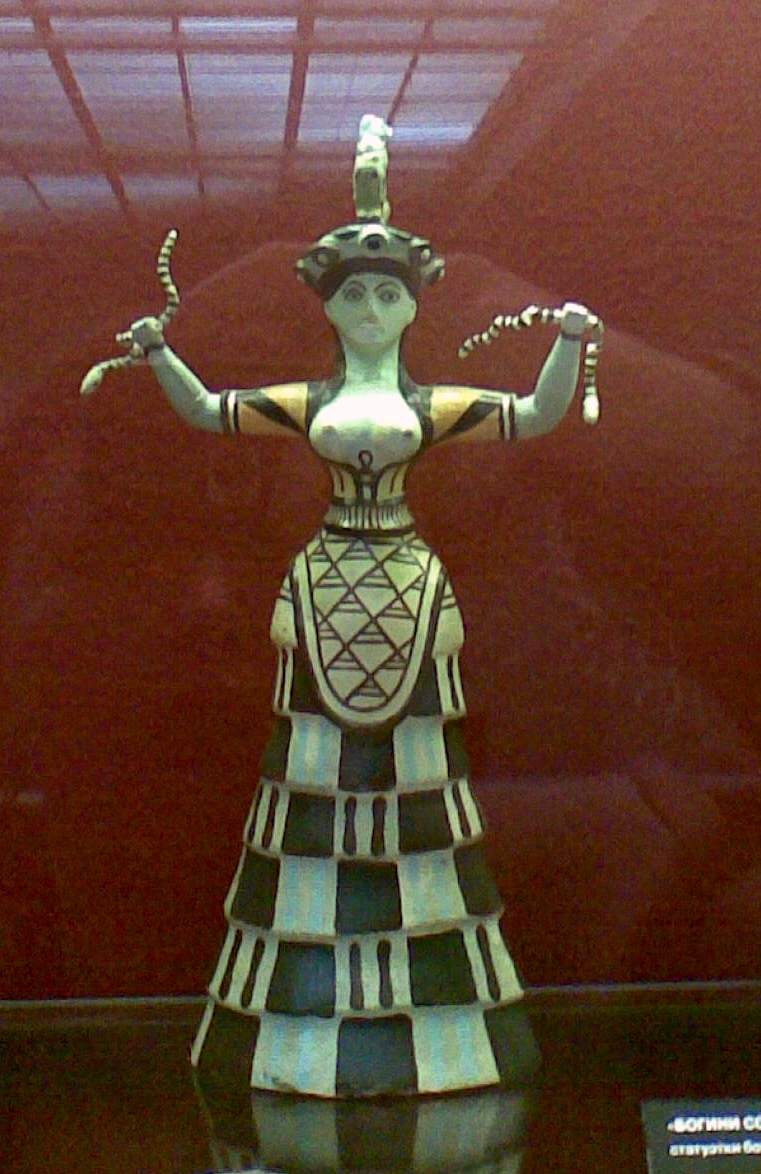 Snake goddess. Plaster coloured cast in Pushkin Museum, Moscow